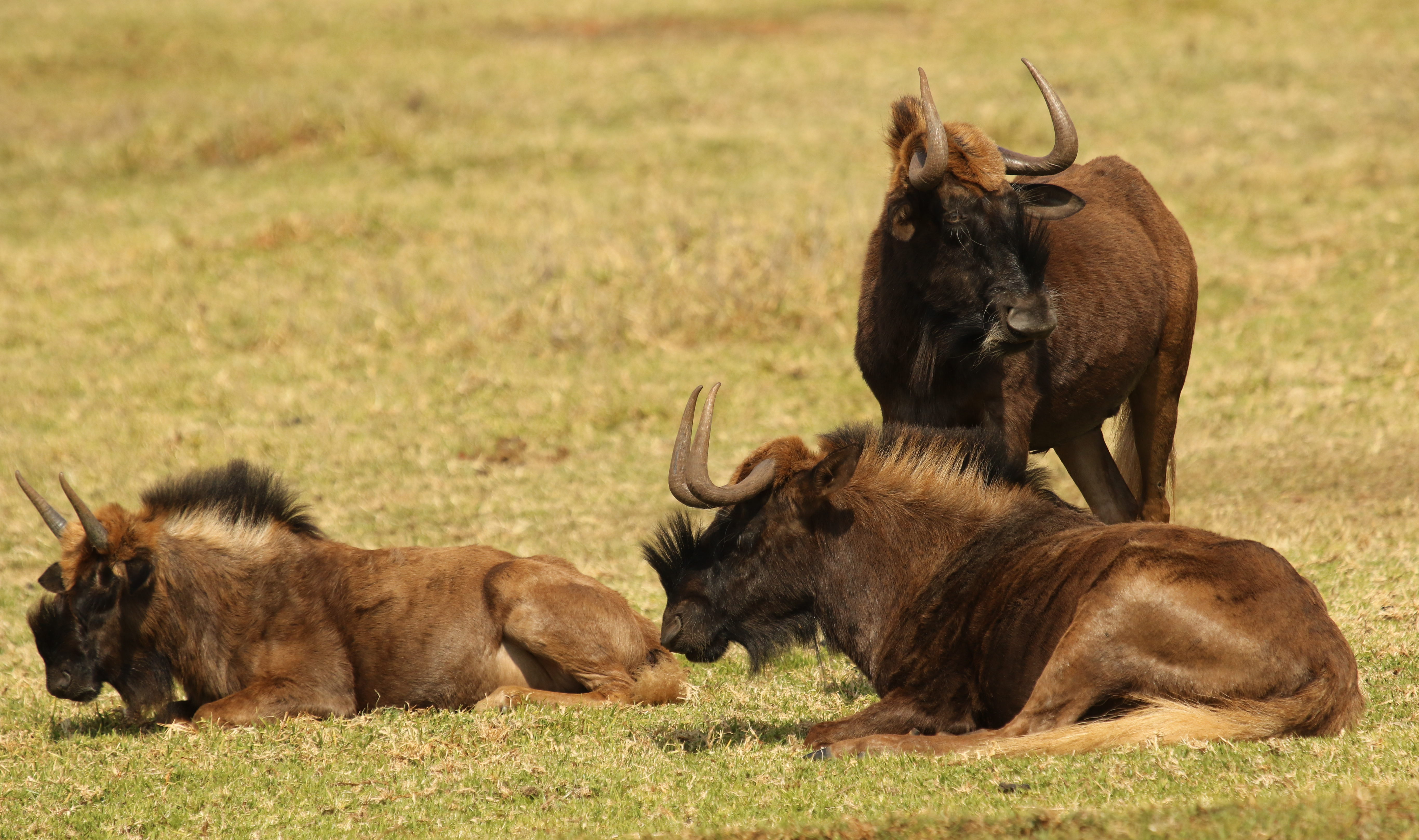 Black wildebeest, or white-tailed gnu, Connochaetes gnou at Krugersdorp Game Reserve, Gauteng, South Africa